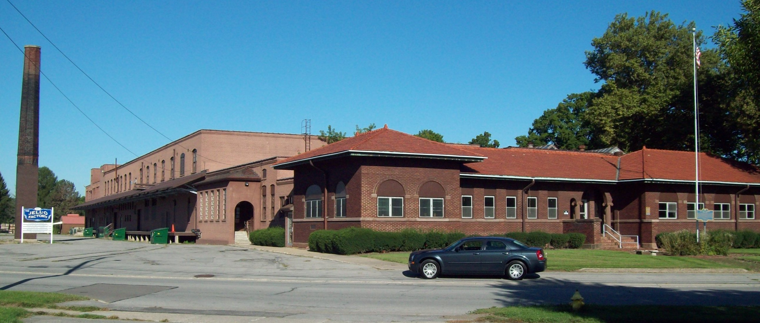 Original Jell-O Factory, Le Roy NY, August 2010